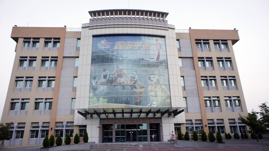 Fire Bureau of Taichung City Government中文（台灣）: 臺中市政府消防局